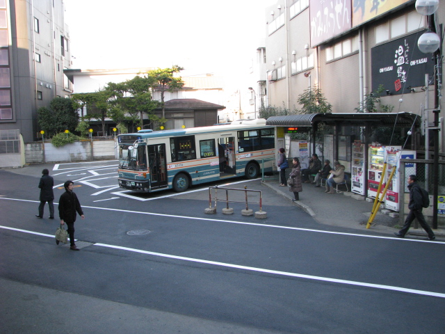 Seibu bus Kokubunji Station North Bus-stop seen from Seibu tamako line plathome, Kokubunji C, Tokyo M.